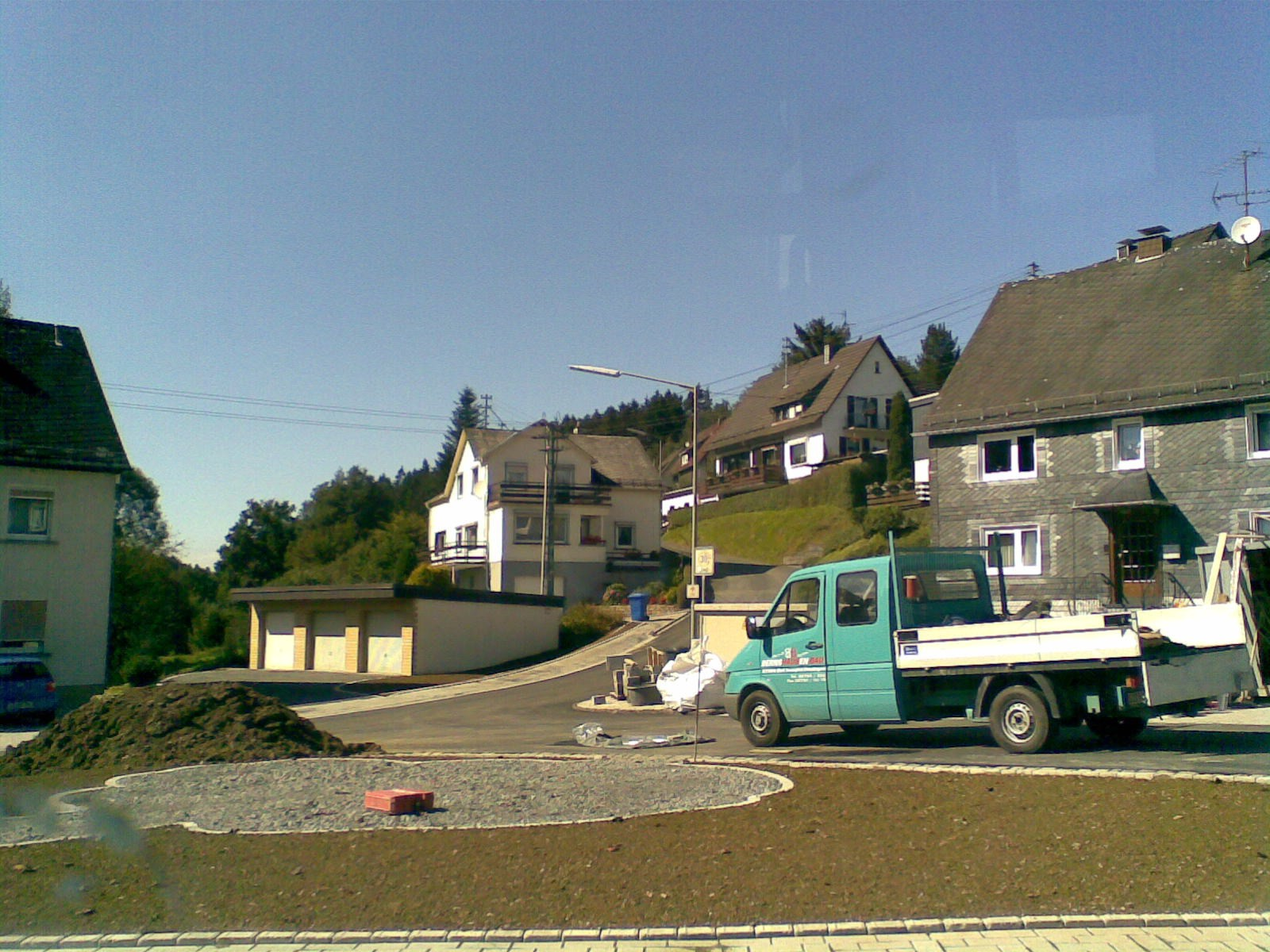 Construction of the villageplace